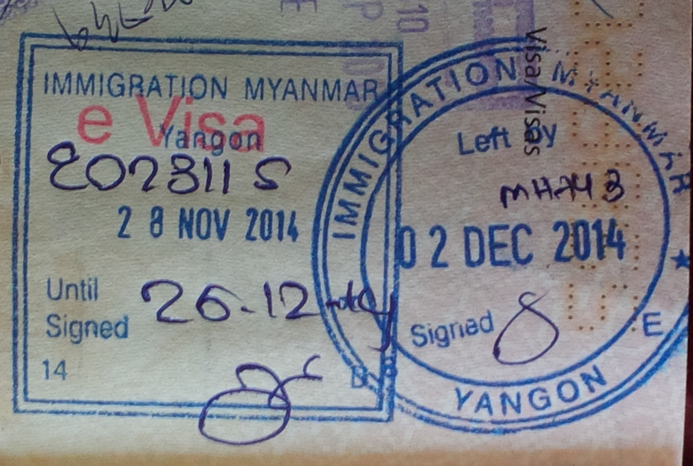 Myanmar passport entry (left) and exit stamps from Yangon International Airport. Entry stamp is for e-visa entries.